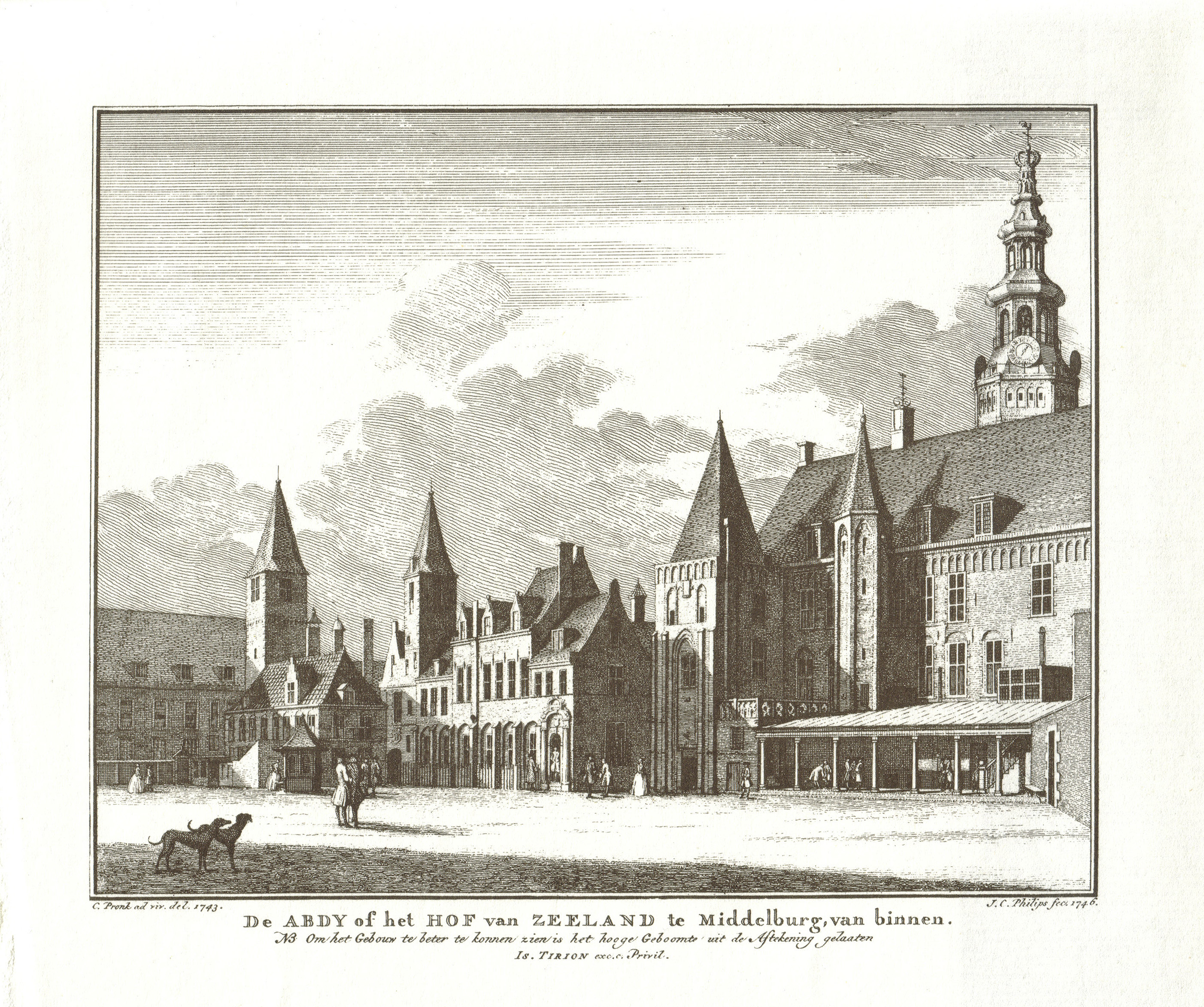 Engraving of the Abbey in Middelburg, Zeeland, The Netherlands